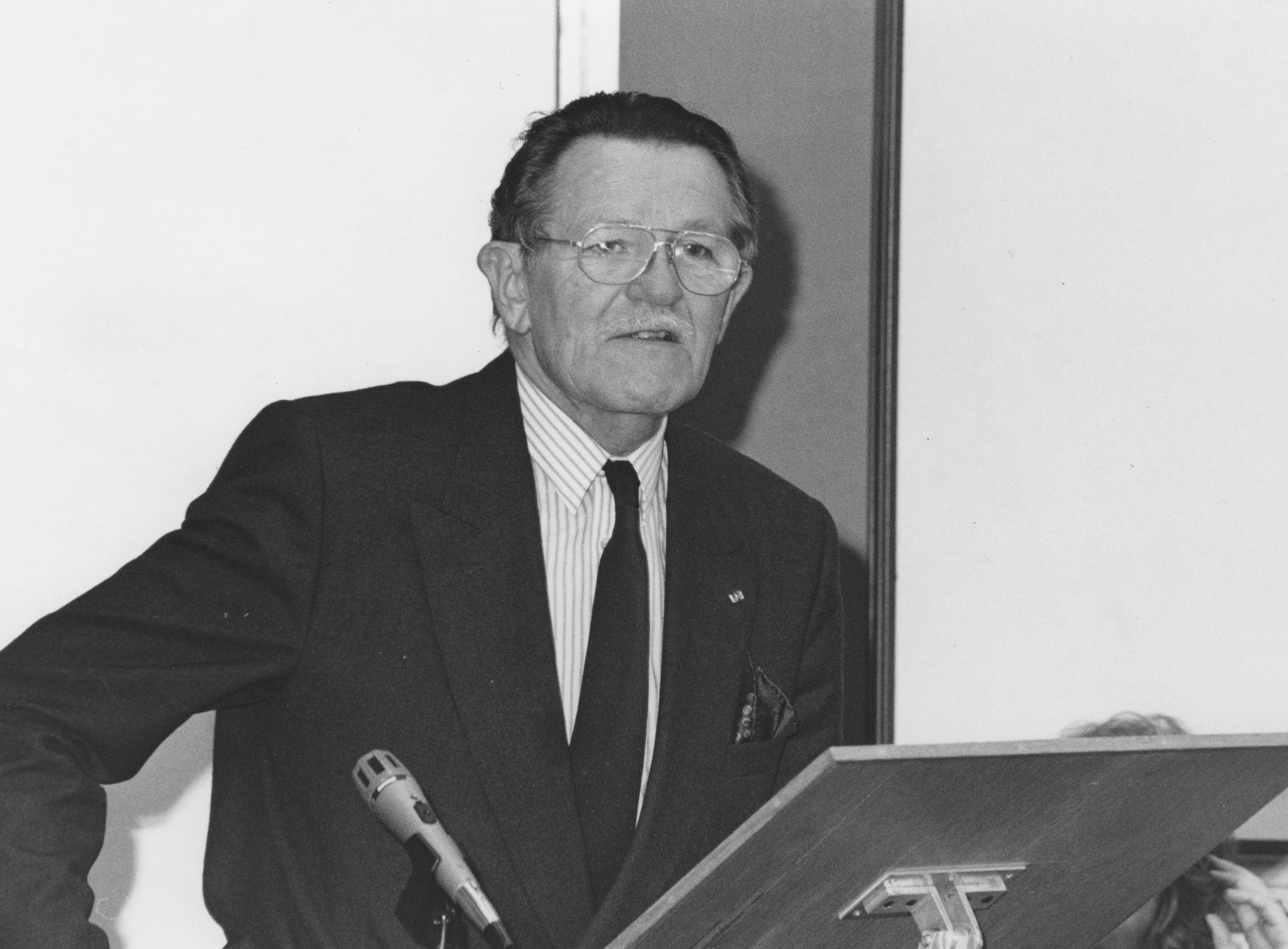 1st February 1990, Board Room, lecture 'Towards a European Community with No Internal Frontiers - Perspectives and Problems IMAGELIBRARY/274 Persistent URL: [1]